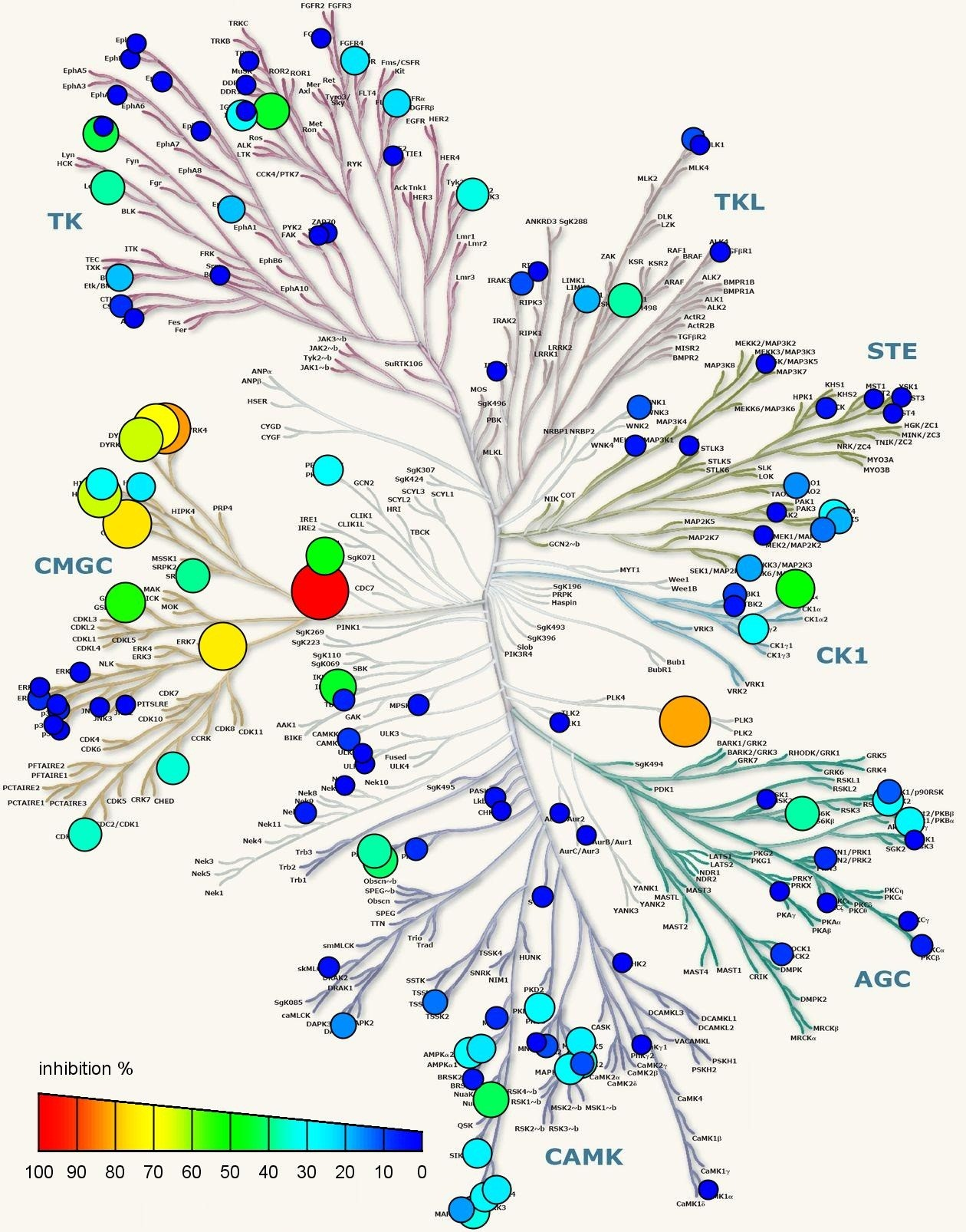 Protein kinase CK2 inhibitor ARC-1502 selectivity profile (Org. Biomol. Chem., 2012, 10, 8645).